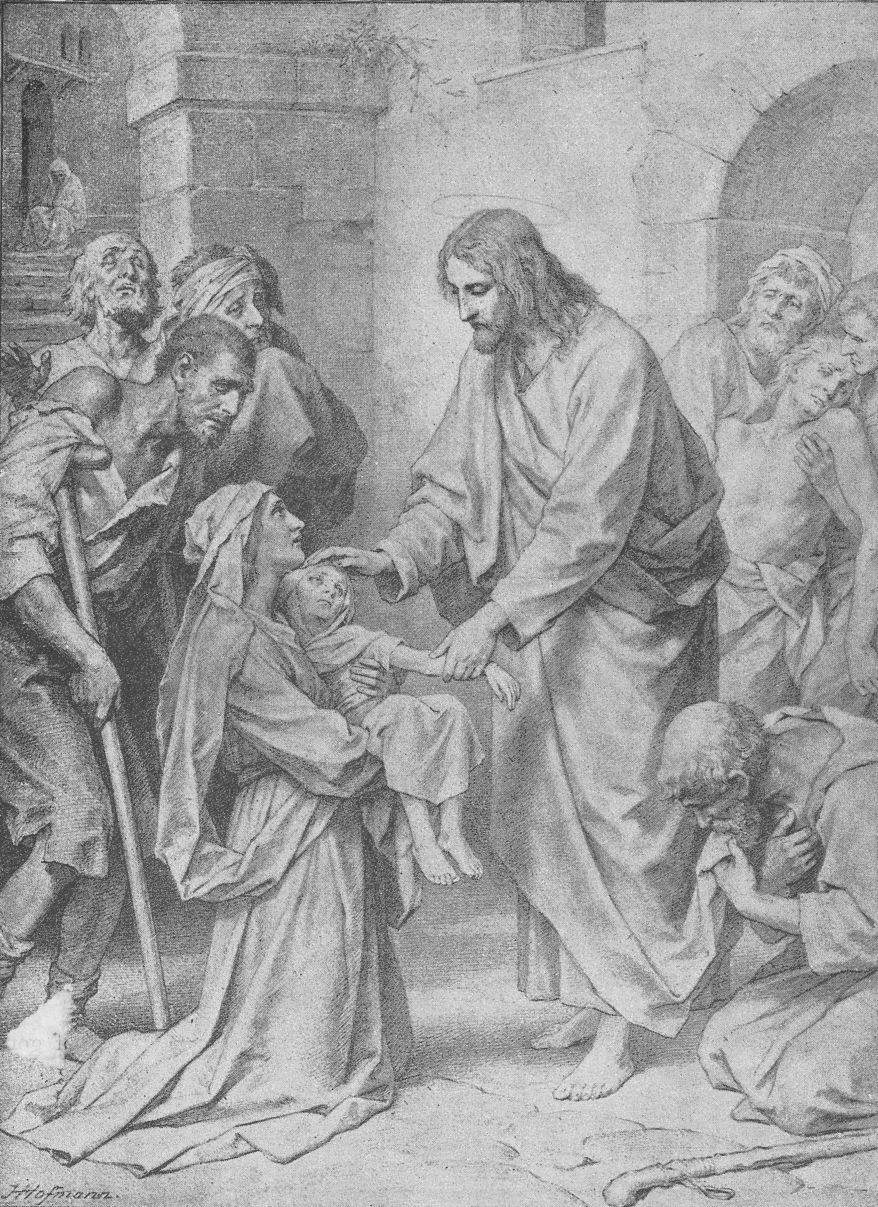 Jesus faith-healing.